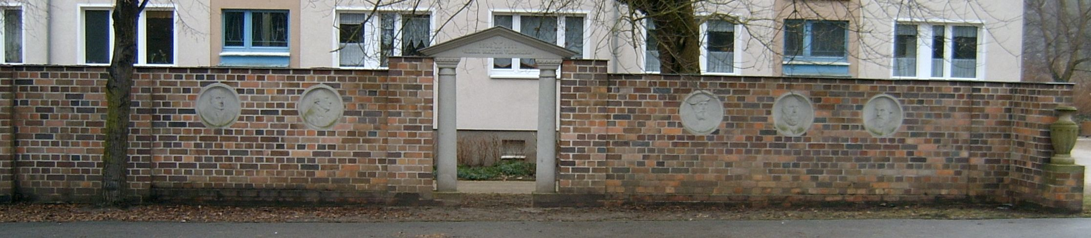 Relief wall History of the old universtiy at the border of the Lenné park in Frankfurt (Oder), Brandenburg, Germany